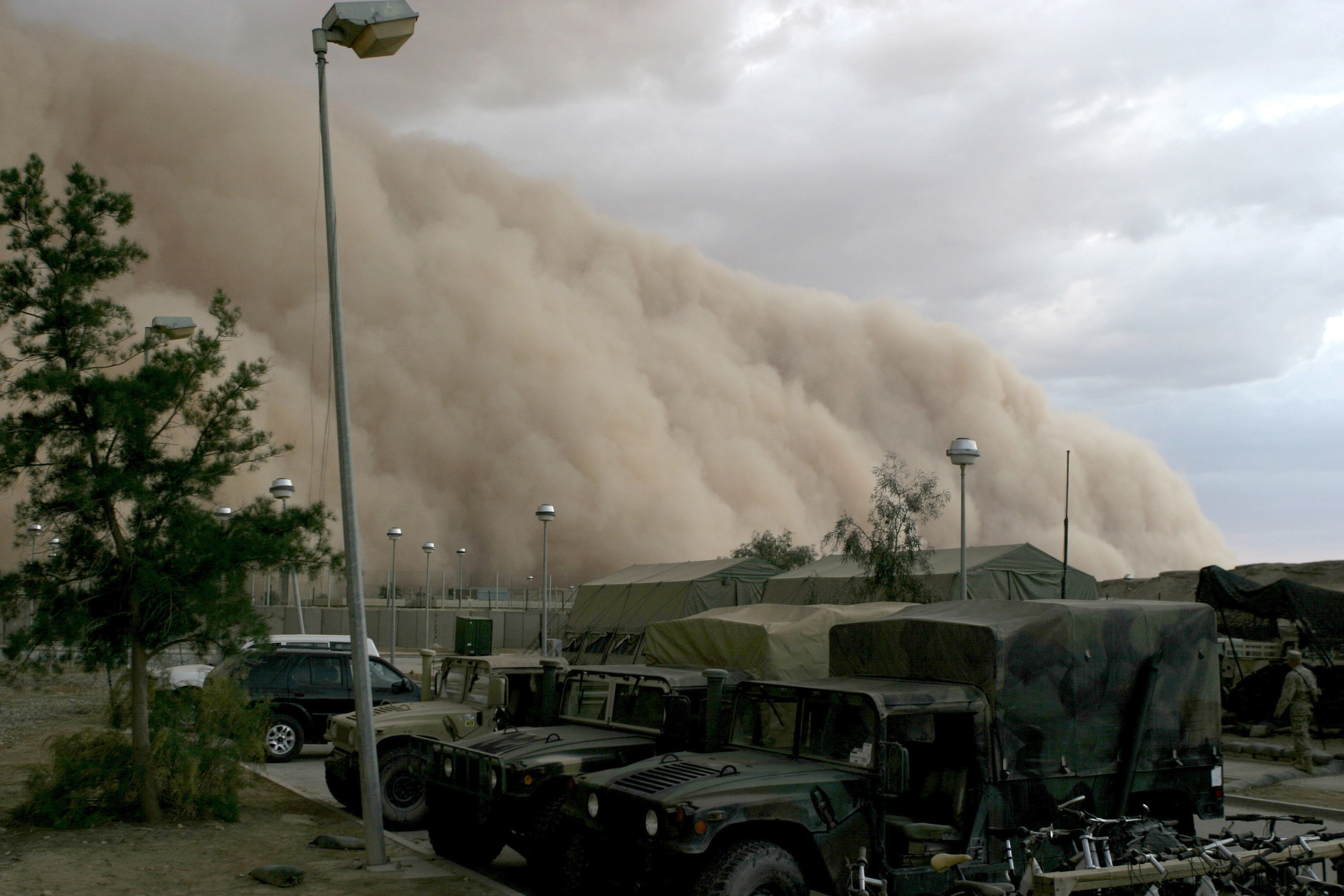 A massive dust storm cloud (haboob) is close to enveloping a military camp as it rolls over Al Asad, Iraq, just before nightfall on April 27, 2005. DoD photo by Corporal Alicia M. Garcia, U.S. Marine Corps. (Released)